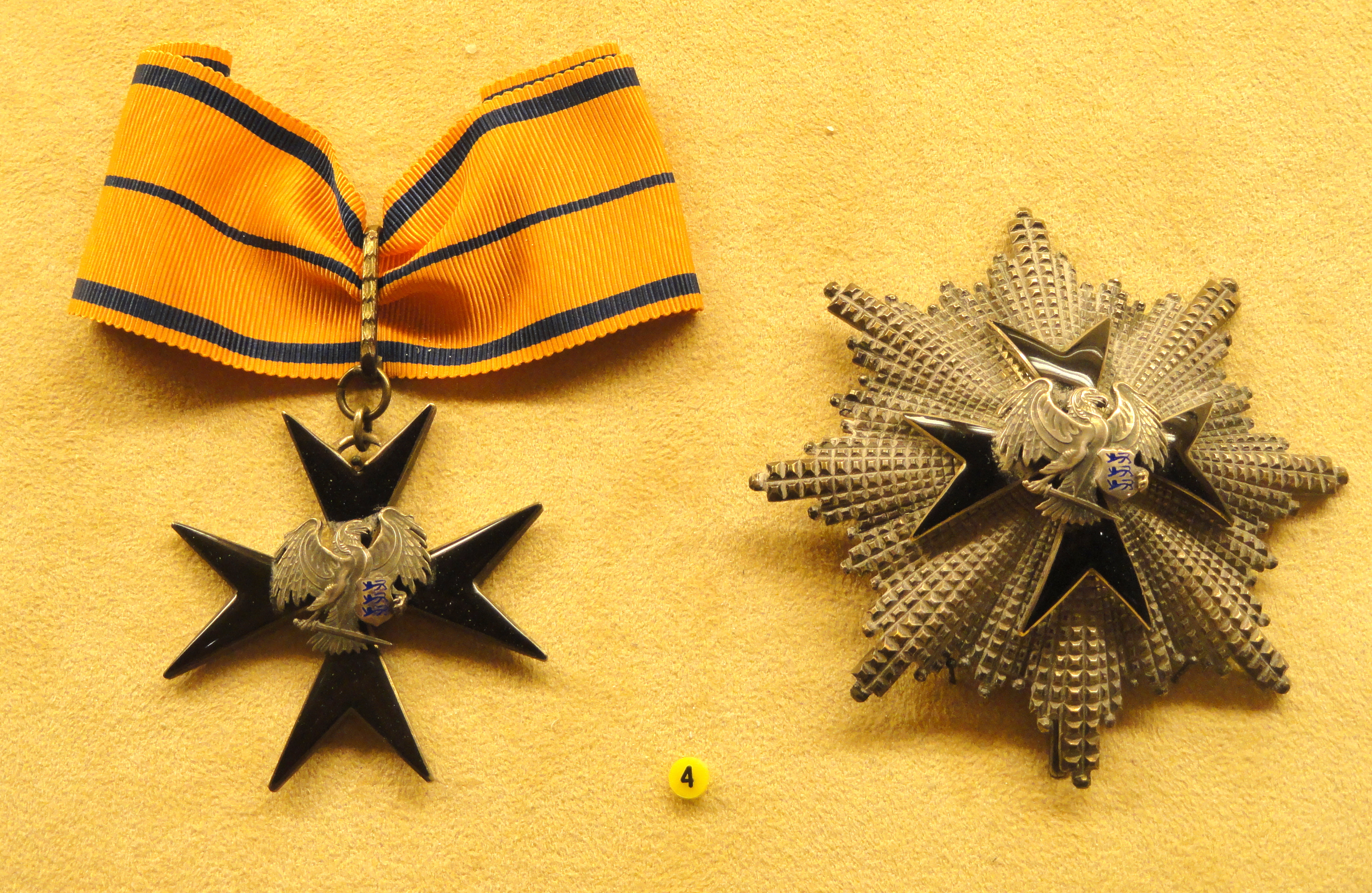 Award in the National Museum of Finland, Helsinki, Finland. This artwork is in the public domain because the artist(s) died more than 70 years ago.